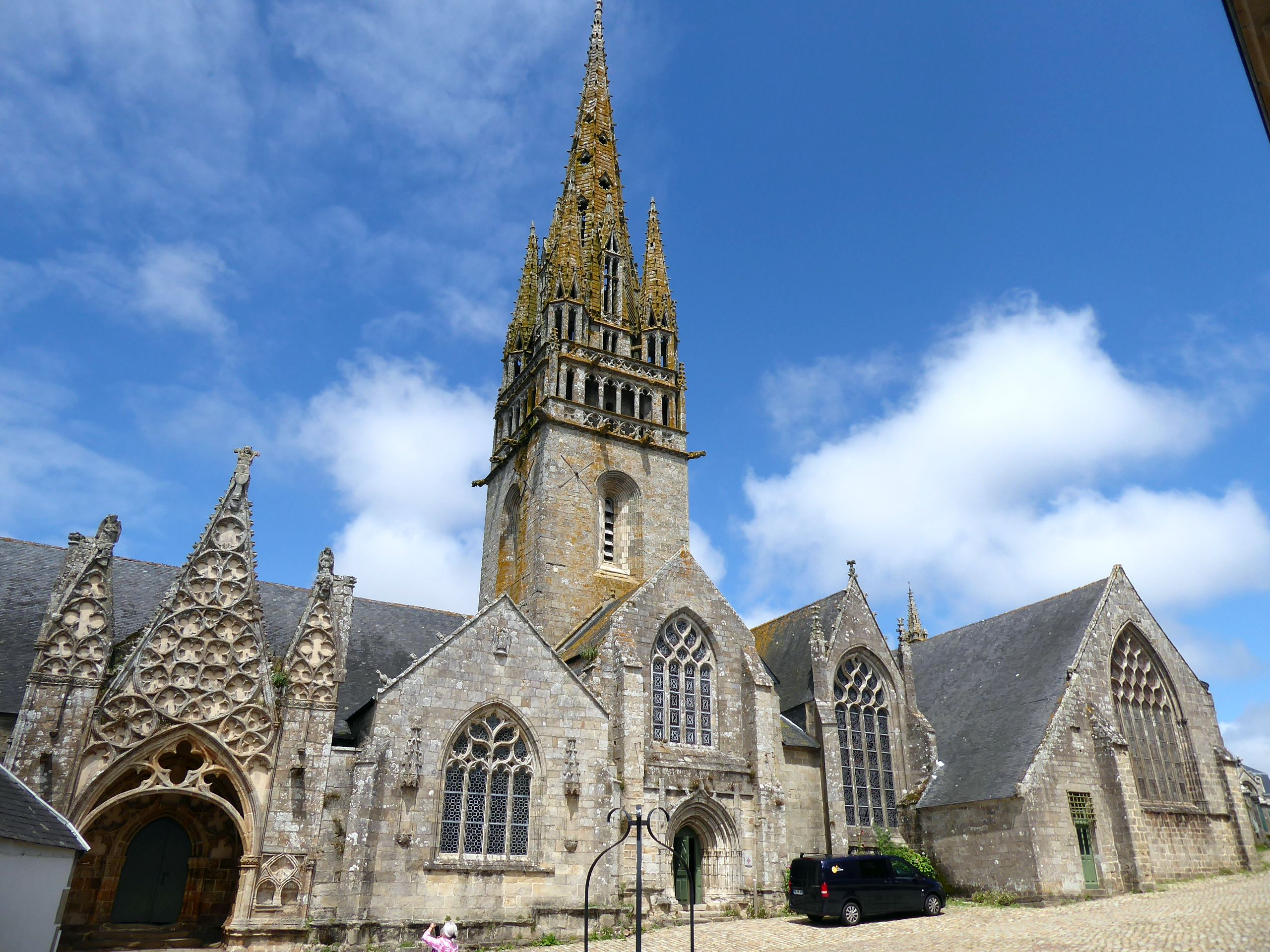 Exterior of Collégiale Notre-Dame-de-Roscudon